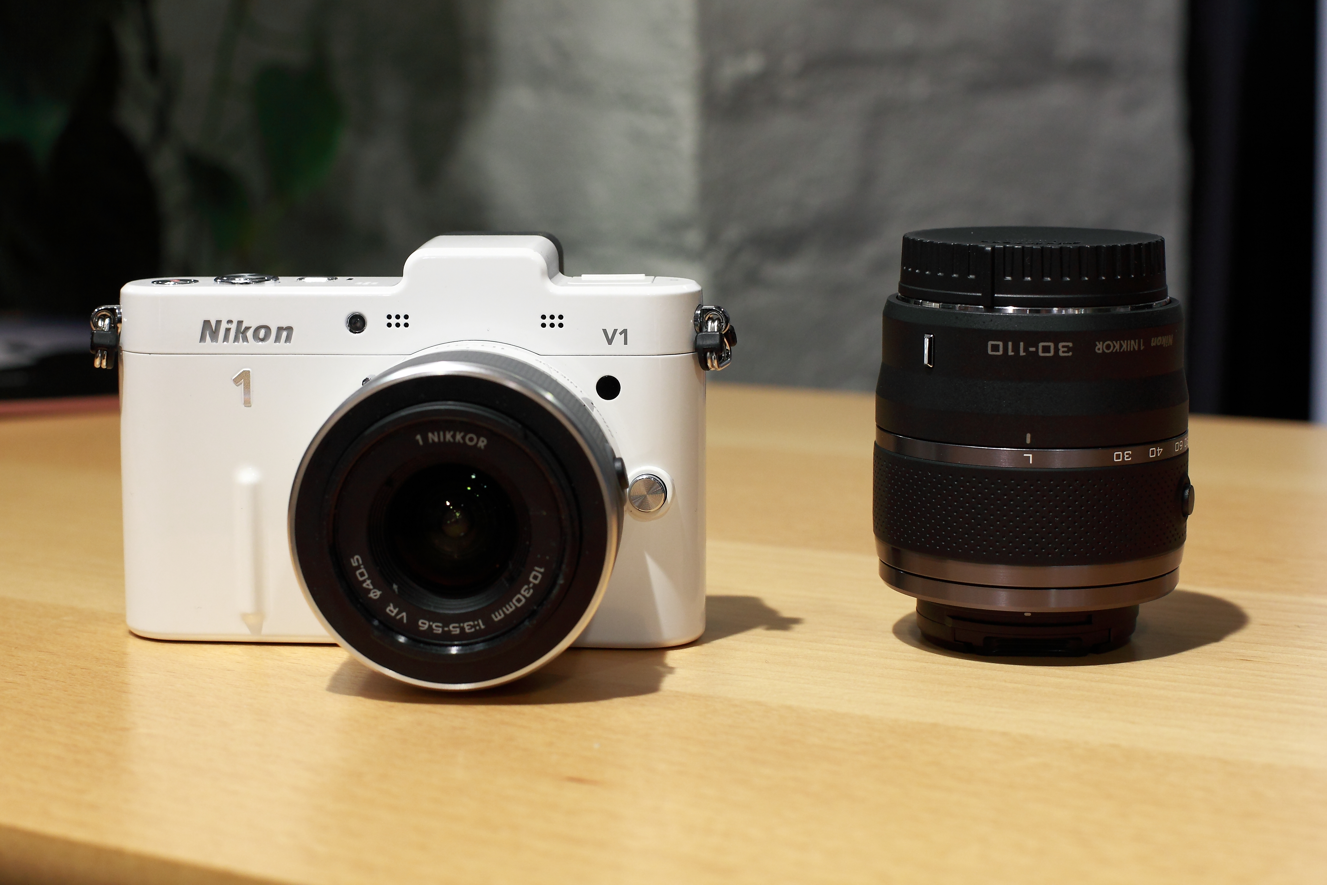 Nikon 1 V1 with Nikkor 10-30mm (27-81mm @ 35mm) attached, and Nikkor 30-110mm (81-297mm @ 35mm) telezoom lens